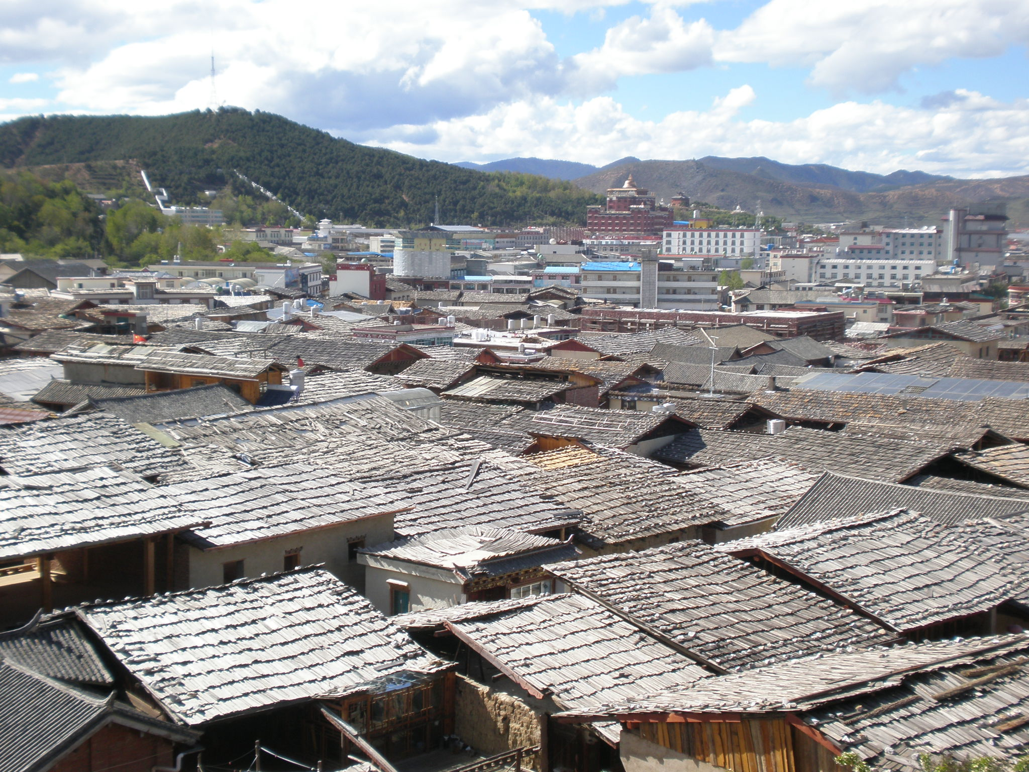 Roofs of the Old Town of Shangri-La, Yunnan as seen from Guishan Temple.